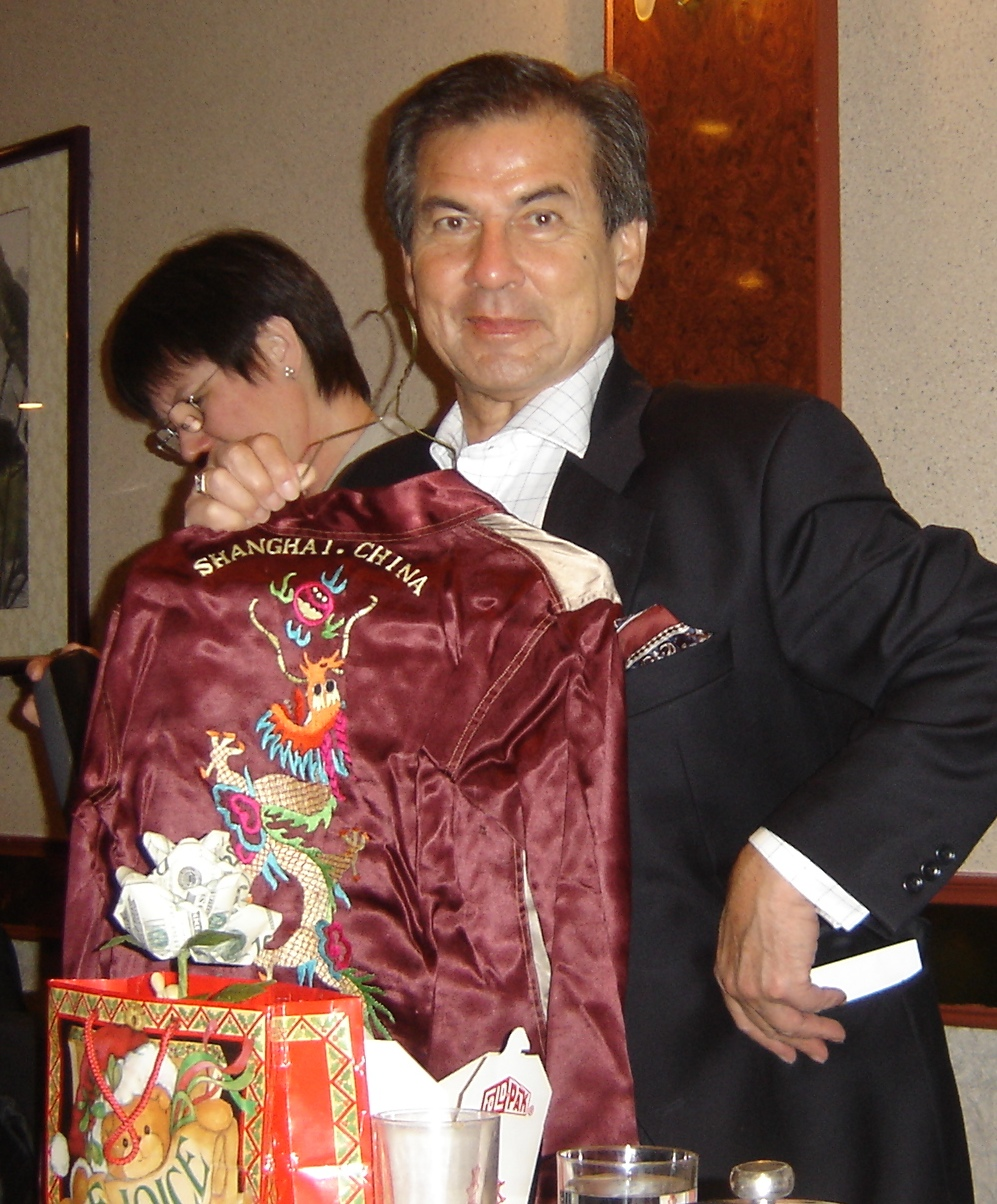 Mario J. Machado; taken on his 70th birthday, receiving a jacket from his birthplace, Shanghai.